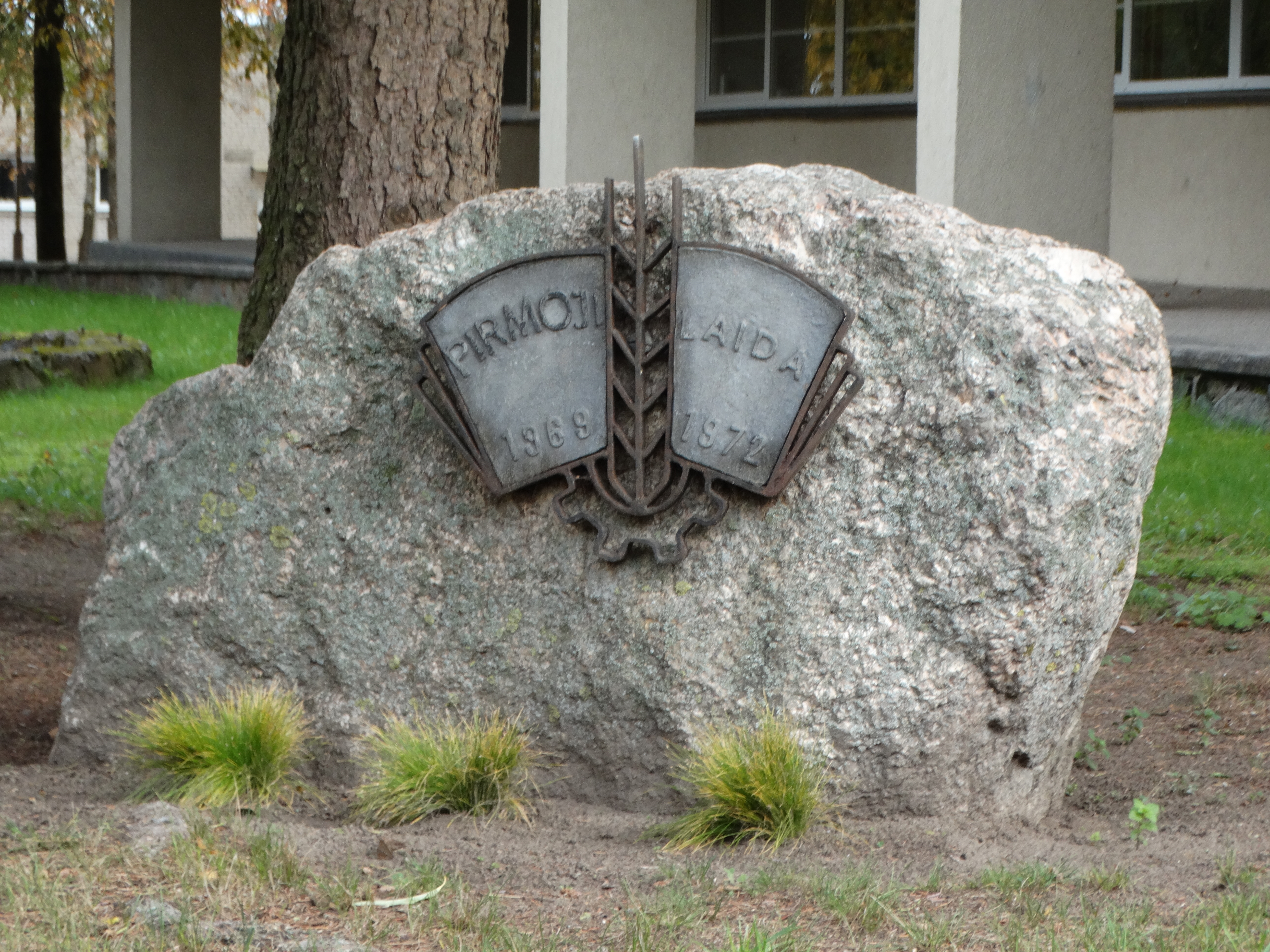 Memorial stone by vocational school, Raseiniai, Lithuania